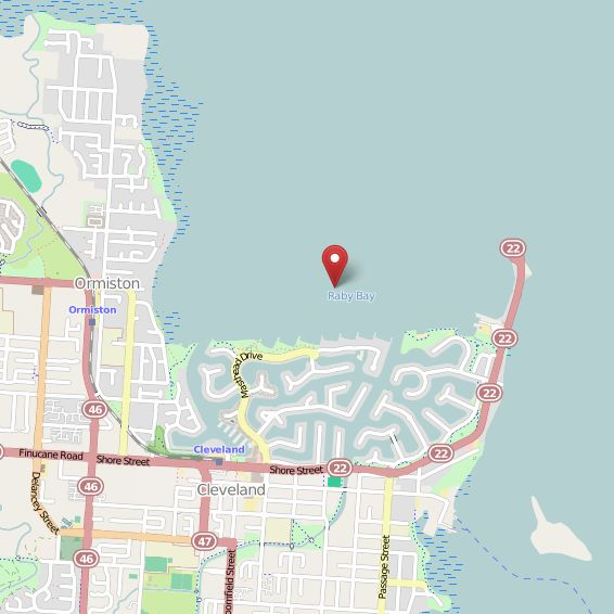 Open Street Map - Raby Bay, 2015